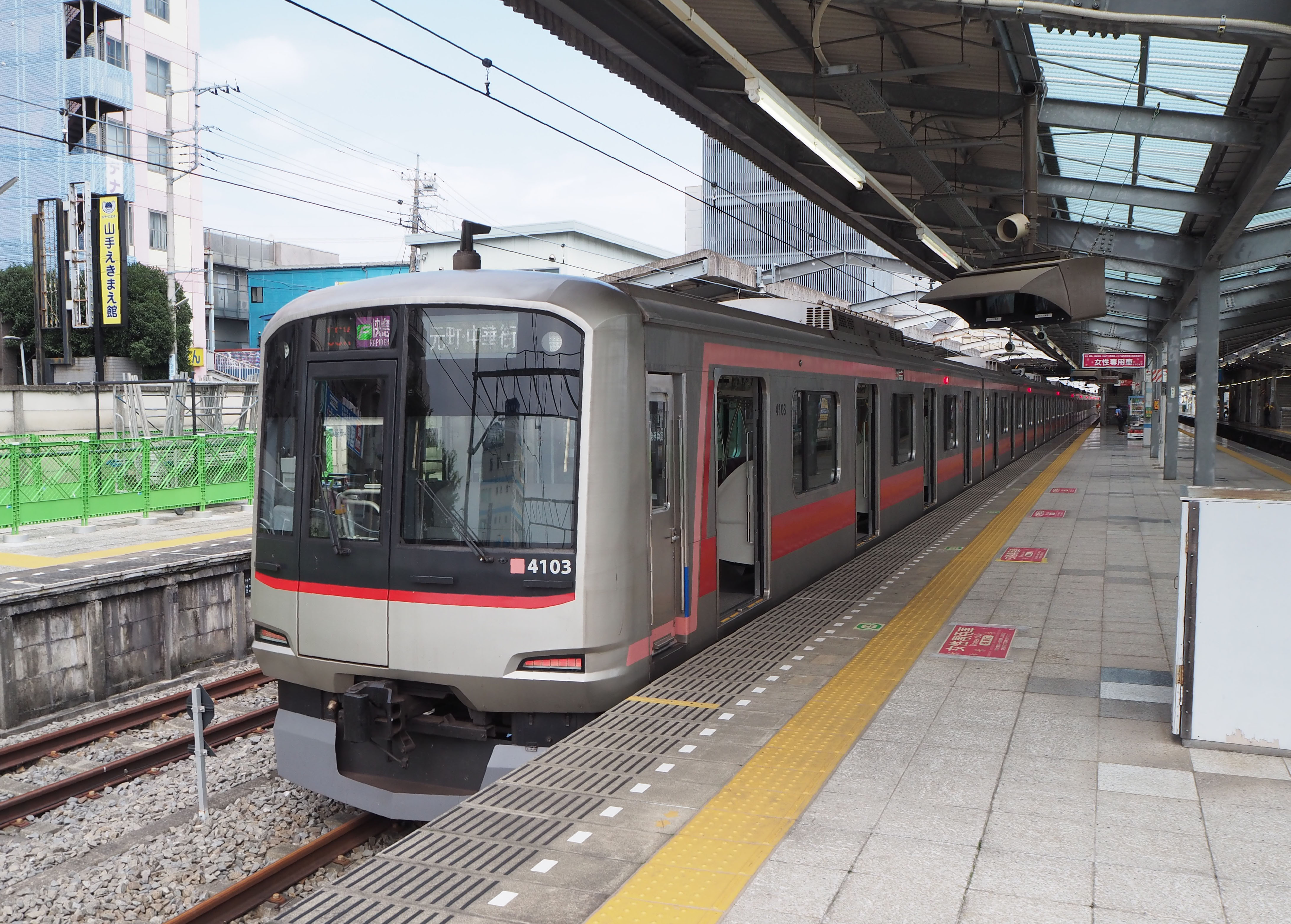 Tokyu 5050-4000 series EMU set 4103 at Hanno Station on a through-running service to Motomachi-Chukagai